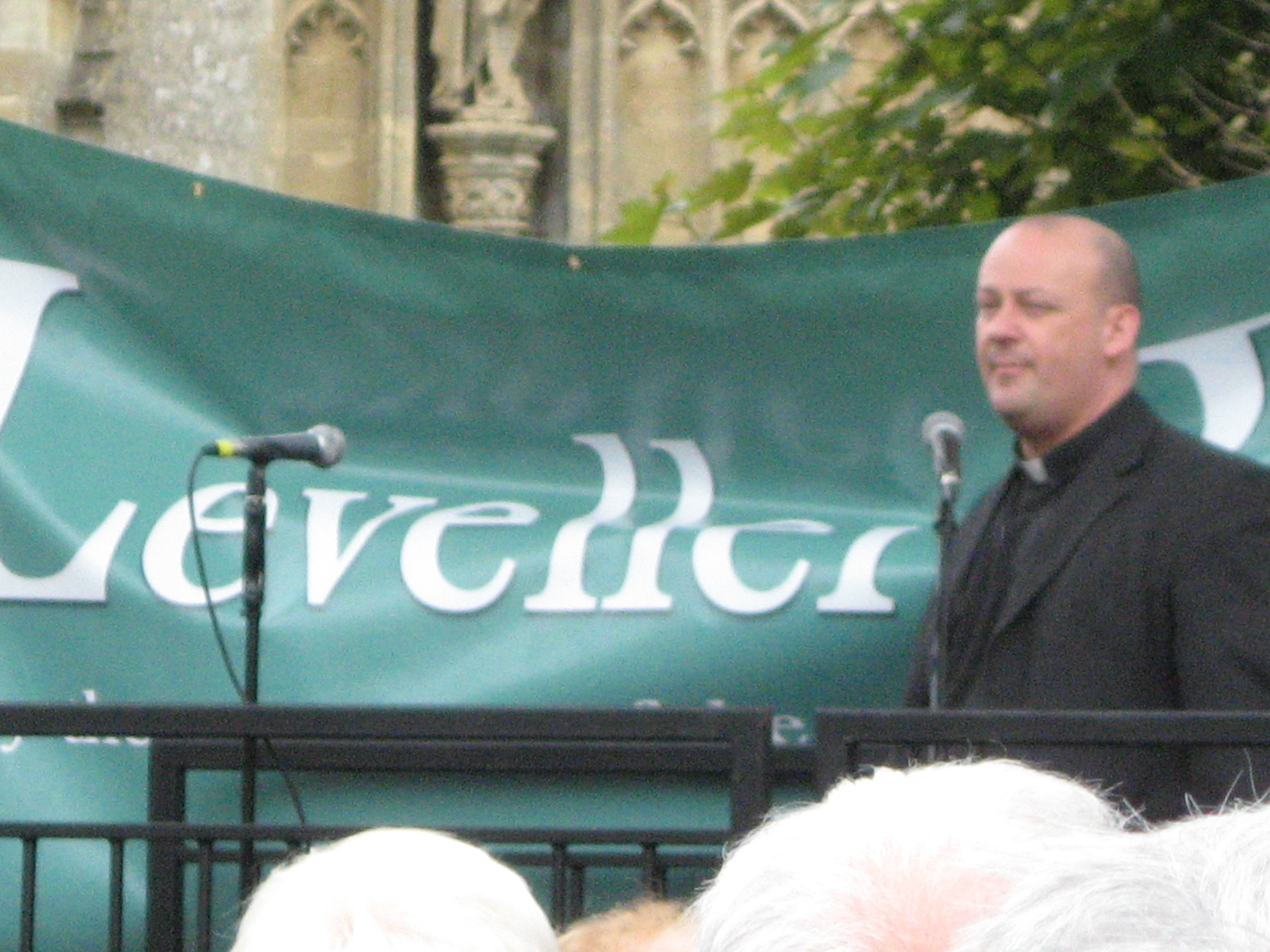 Giles Fraser speaking at Levellers’ Day, Burford, 2008